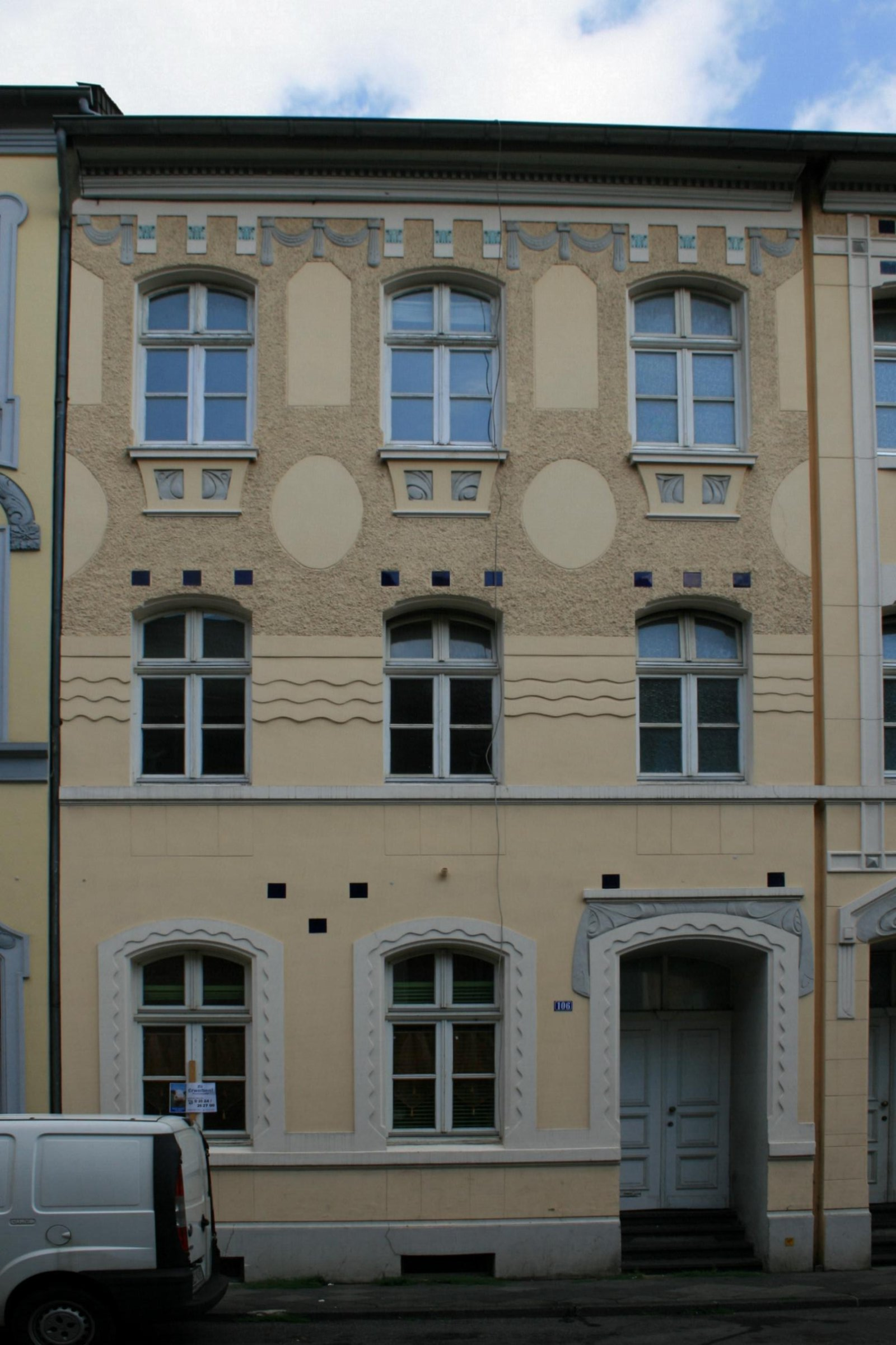 Cultural heritage monument No. W 007 in Mönchengladbach